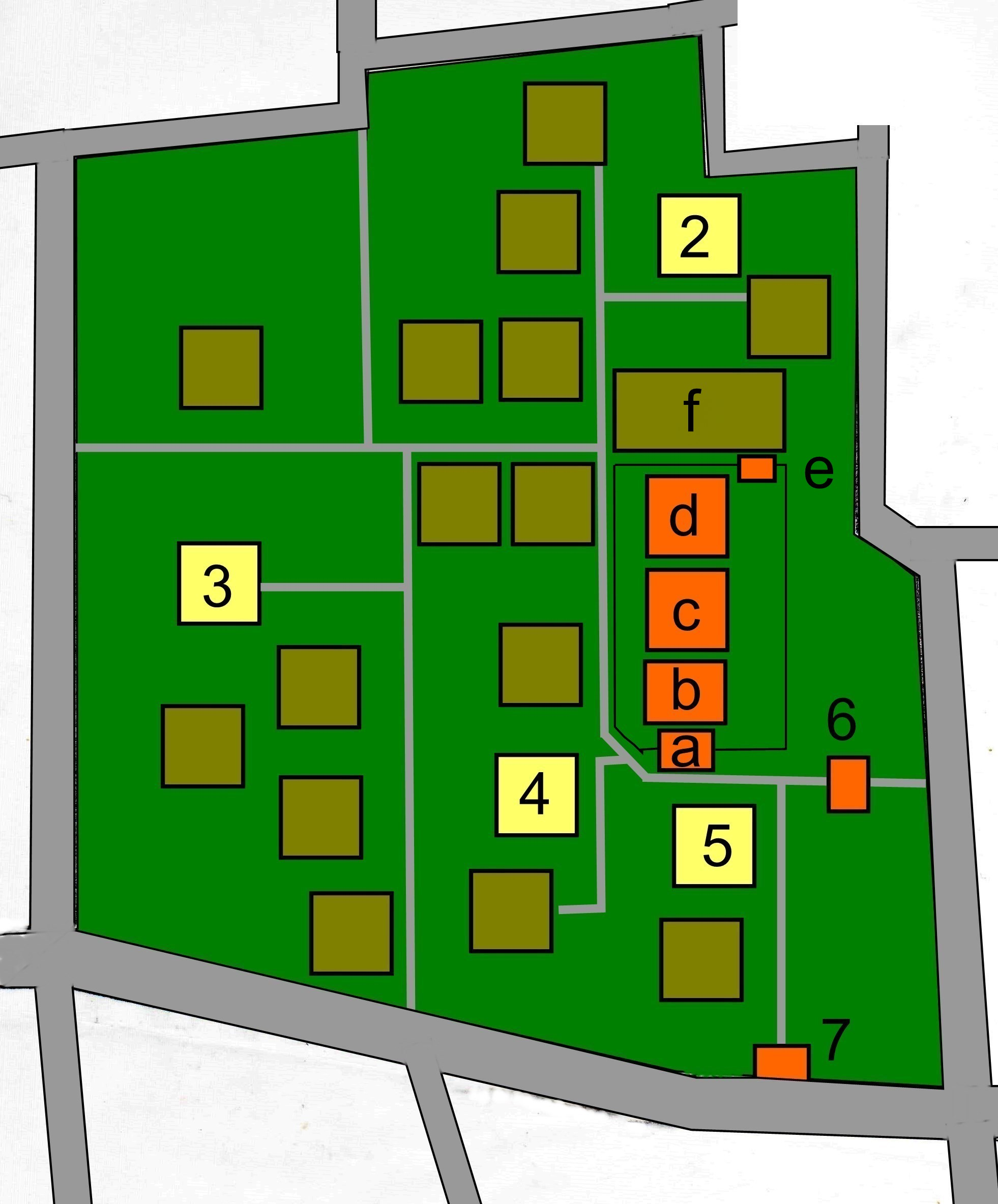 Sketch of Daitokuji (Kyoto) layout